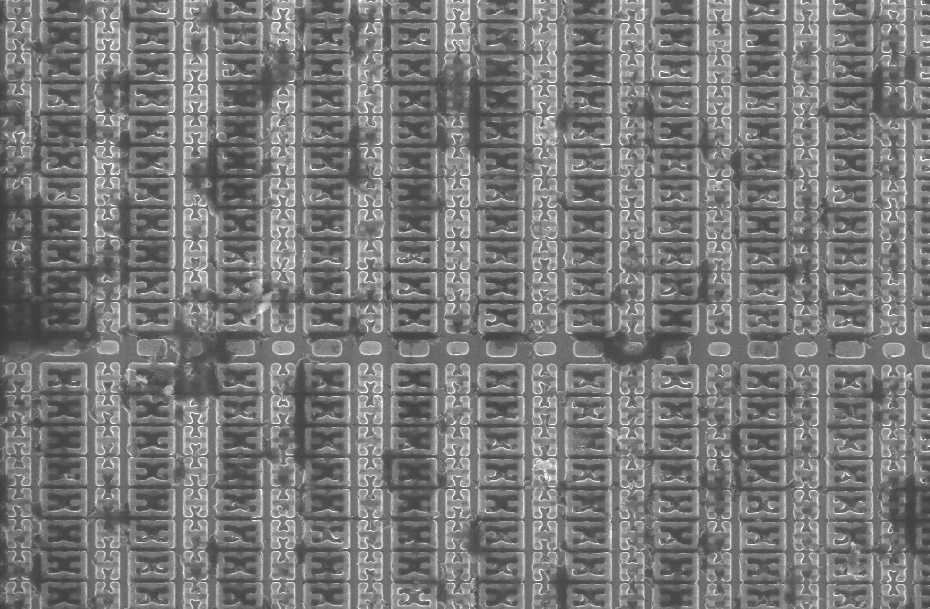 Integrated circuit die image of a STM32F103VGT6 ARM Cortex-M3 MCU (microcontroller) with 1 Mbyte Flash, 72 MHz CPU, motor control, USB and CAN. Die size of 5339x5188 µm. View is from a Scanning Electron Microscope looking at the 180 nanometre SRAM cells on the die.